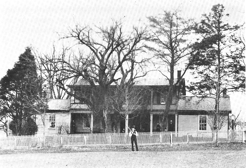 The Crowe-Garritt House, ca. 1880.